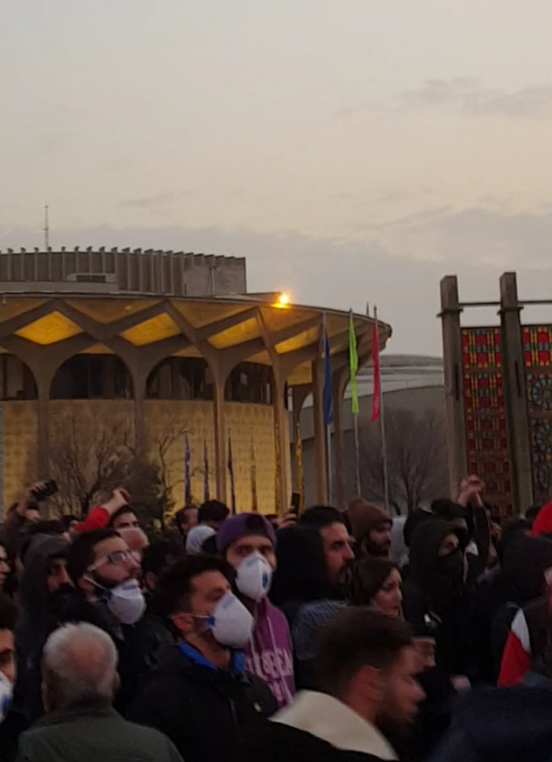 Iranians protest against establishment's actions